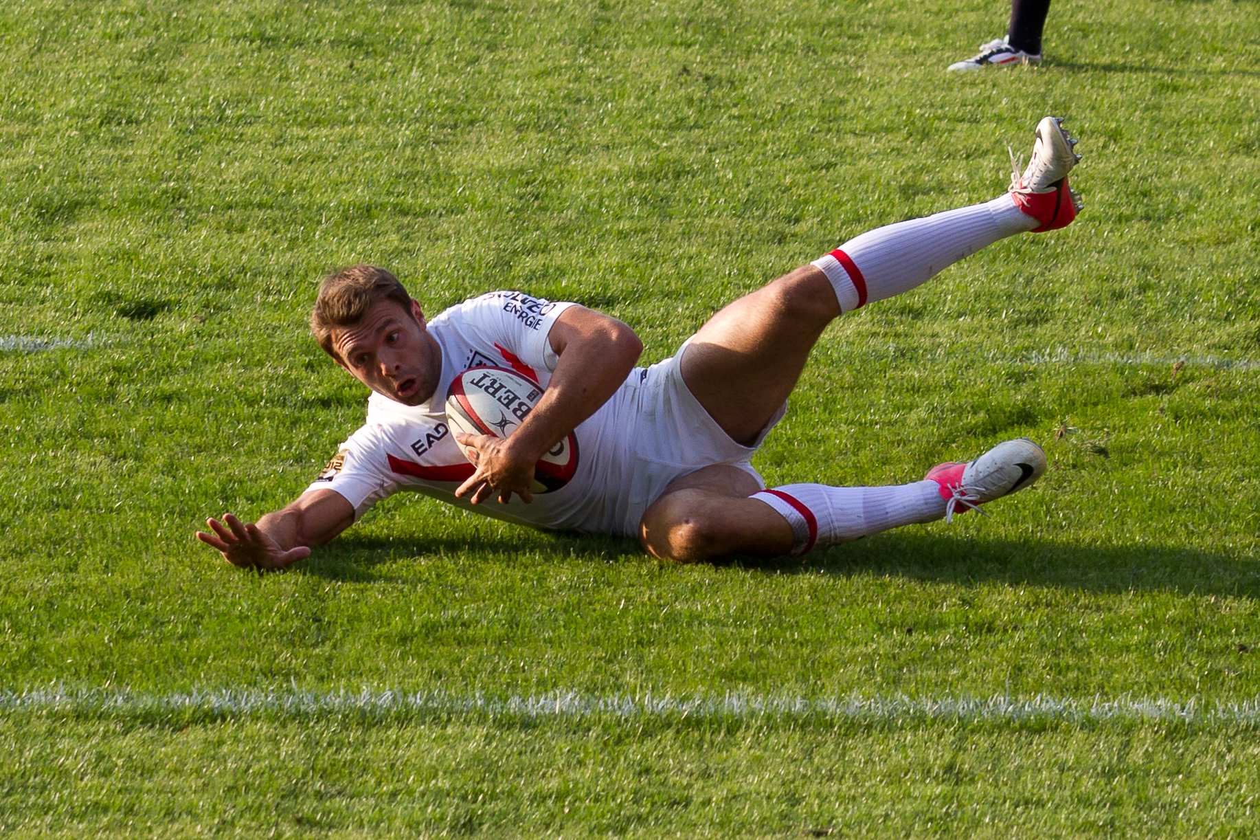 Top 14 — 8 September 2012, Stade Ernest-Wallon. Match between: Stade toulousain — SU Agen